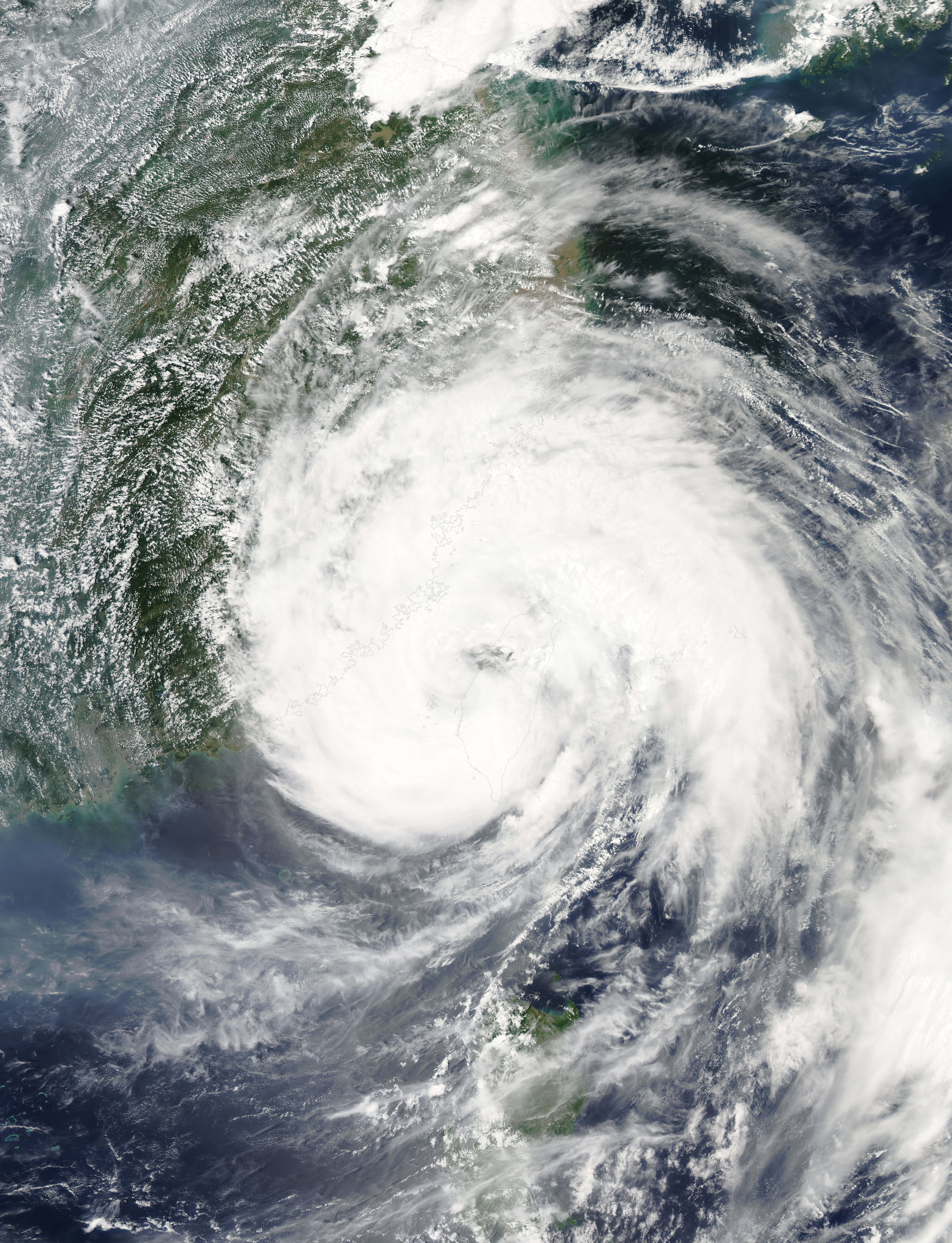 Typhoon Soudelor over the Taiwan Strait on August 8, 2015.